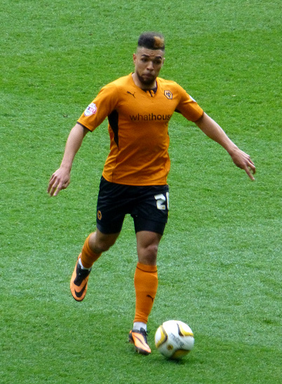 Scott Golbourne - Wolverhampton Wanderers vs Peterborough United (05/04/2014)